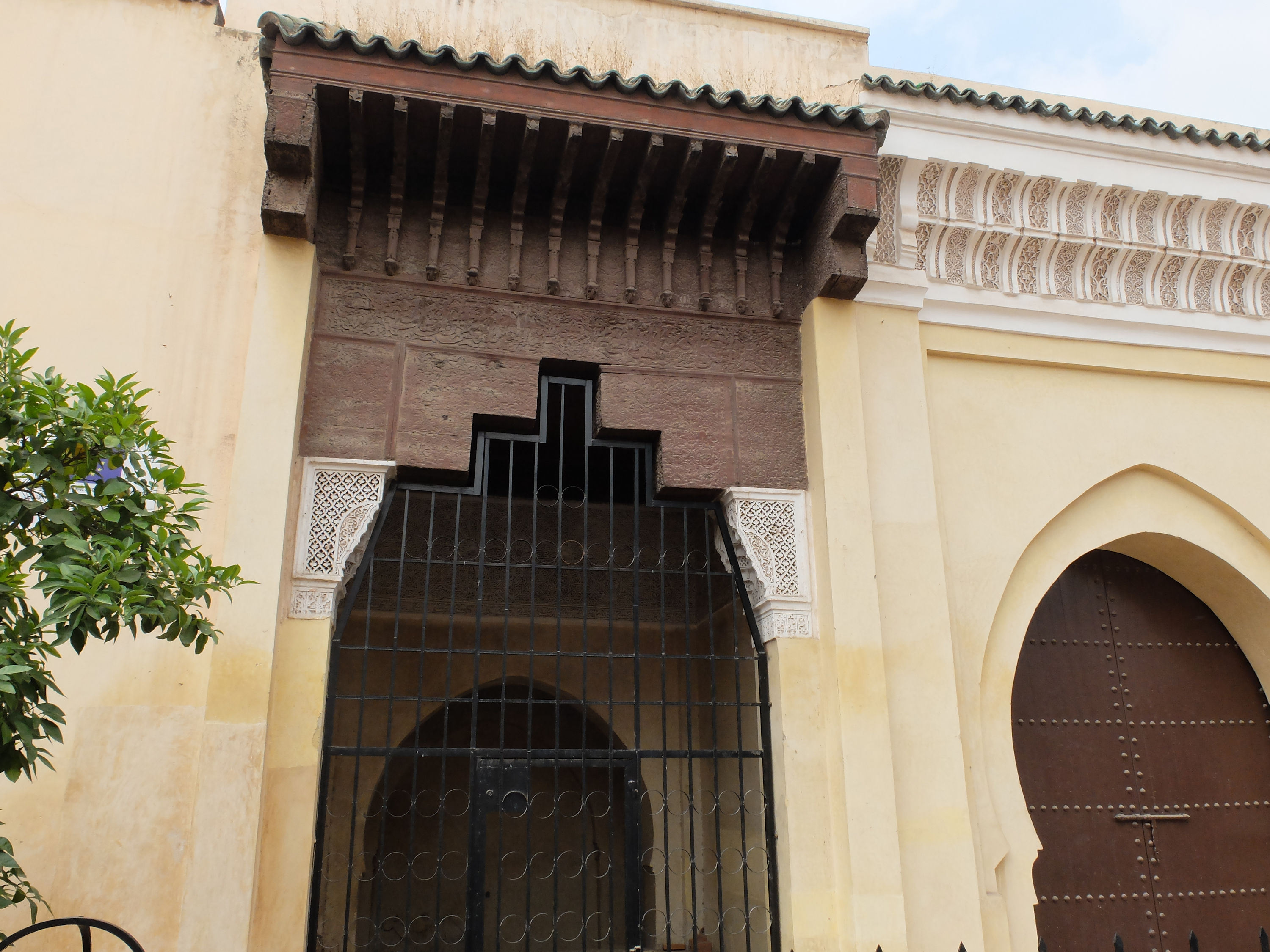 Fountain of the Bab Doukkala Mosque, Marrakech. The mosque was built in the late 16th century under Saadian rule.